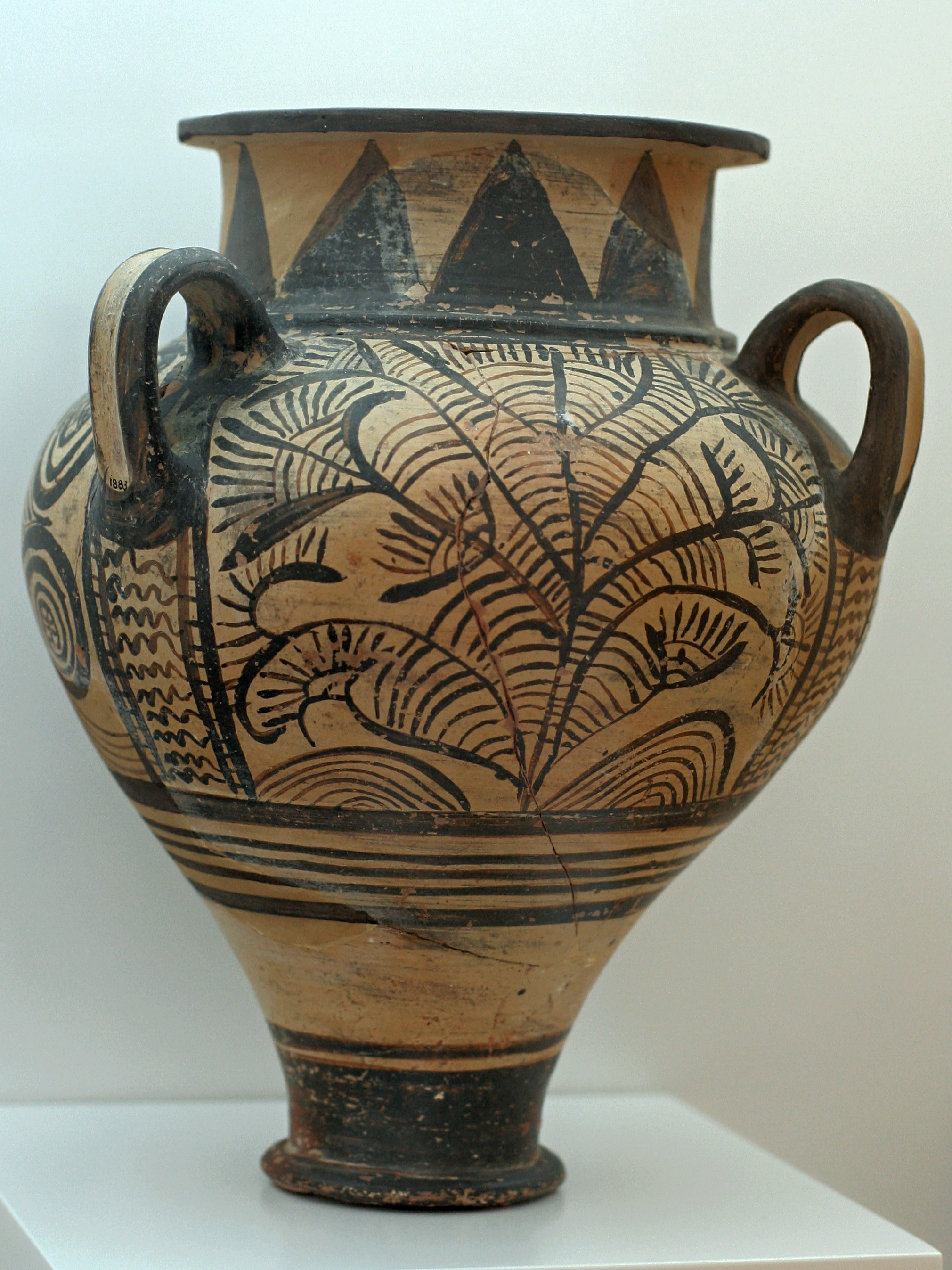 Large pottery. Painting: plant and geometric patterns. Cemetery of Myrsini (Mirsini), near Sitia, Crete, Late Minoan III period, 1400-1100 BC. Archaeological Museum of Agios Nikolaos.